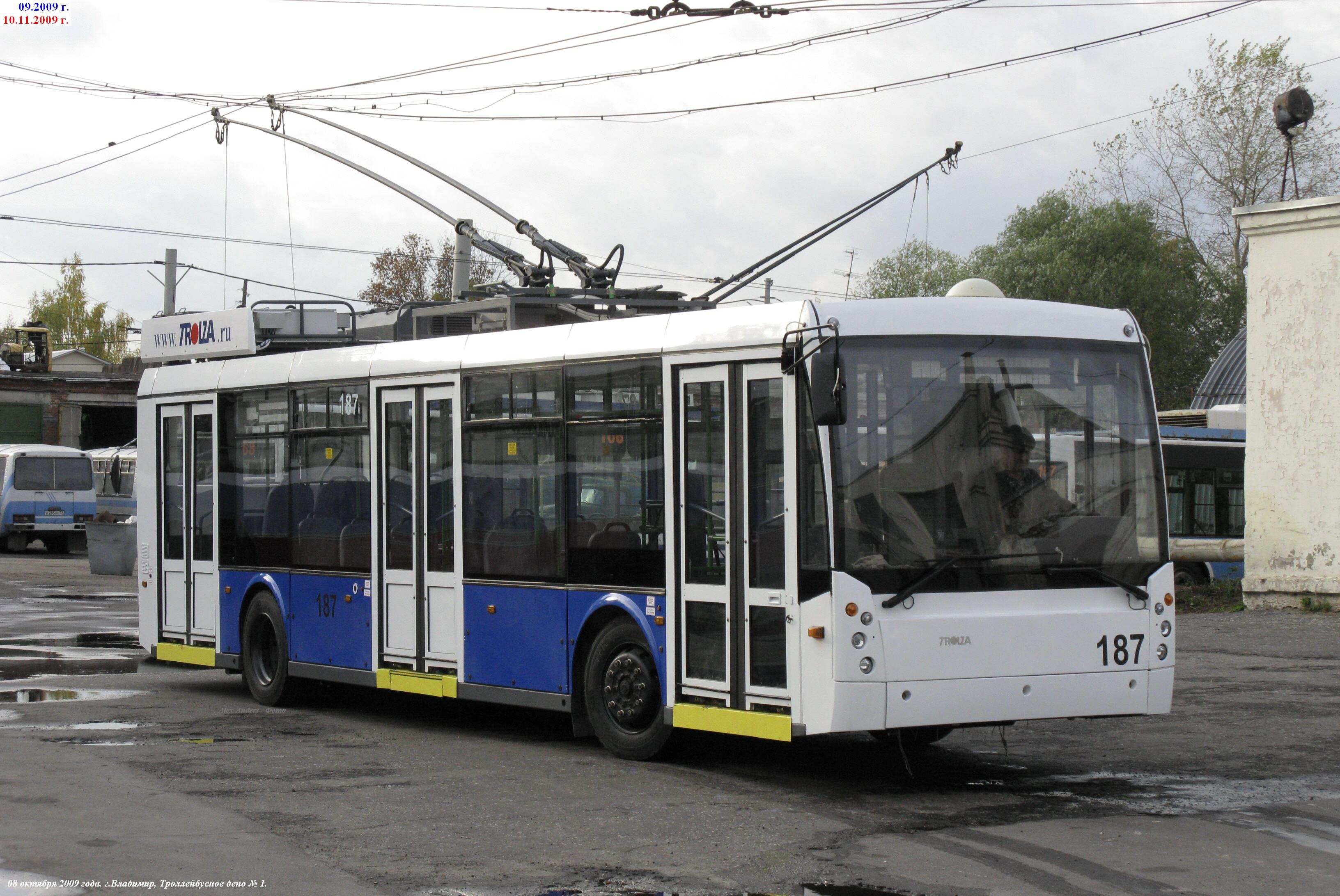 Trolza-5265 in Vladimir (city)